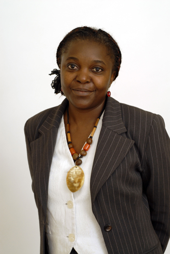 The minister for Integration in the government of Enrico Letta, the first African Italian minister in the history of Italy